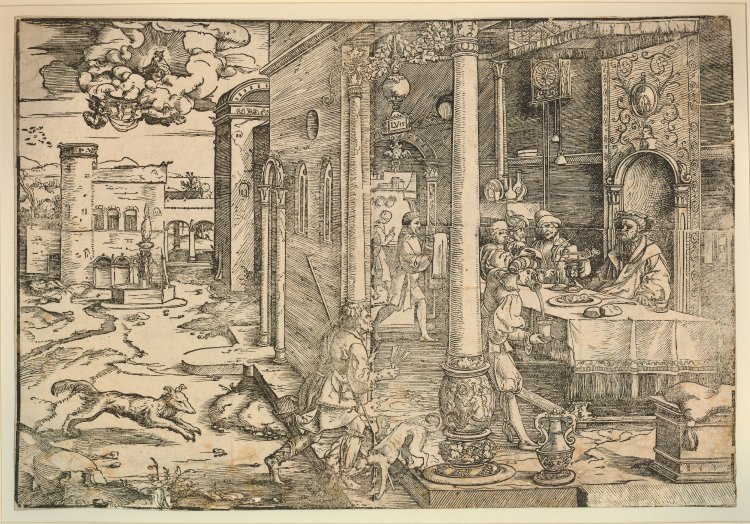 Woodcut of the parable of Lazarus and Dives, now in the British Museum